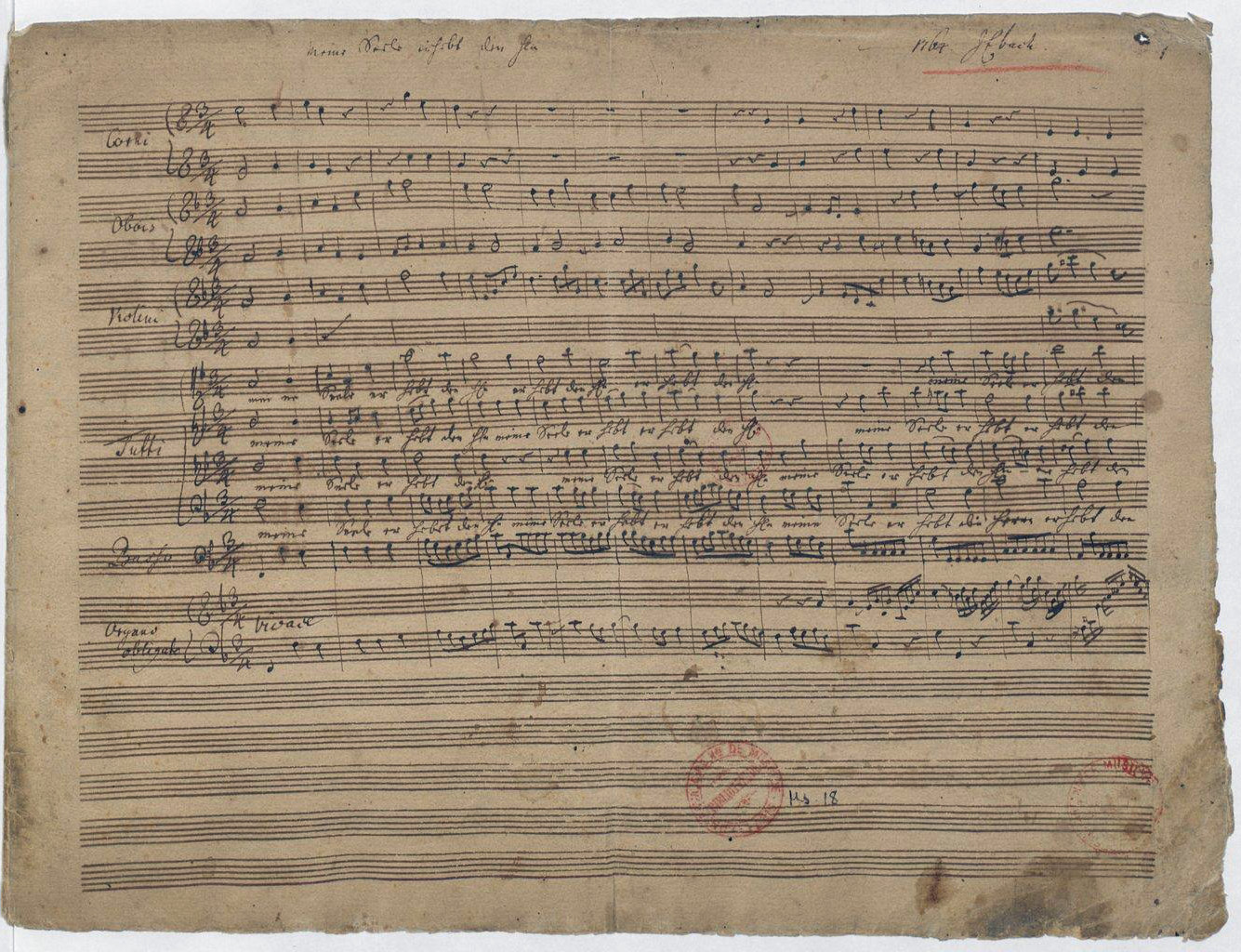 First page of the autographic score from his german magnificat